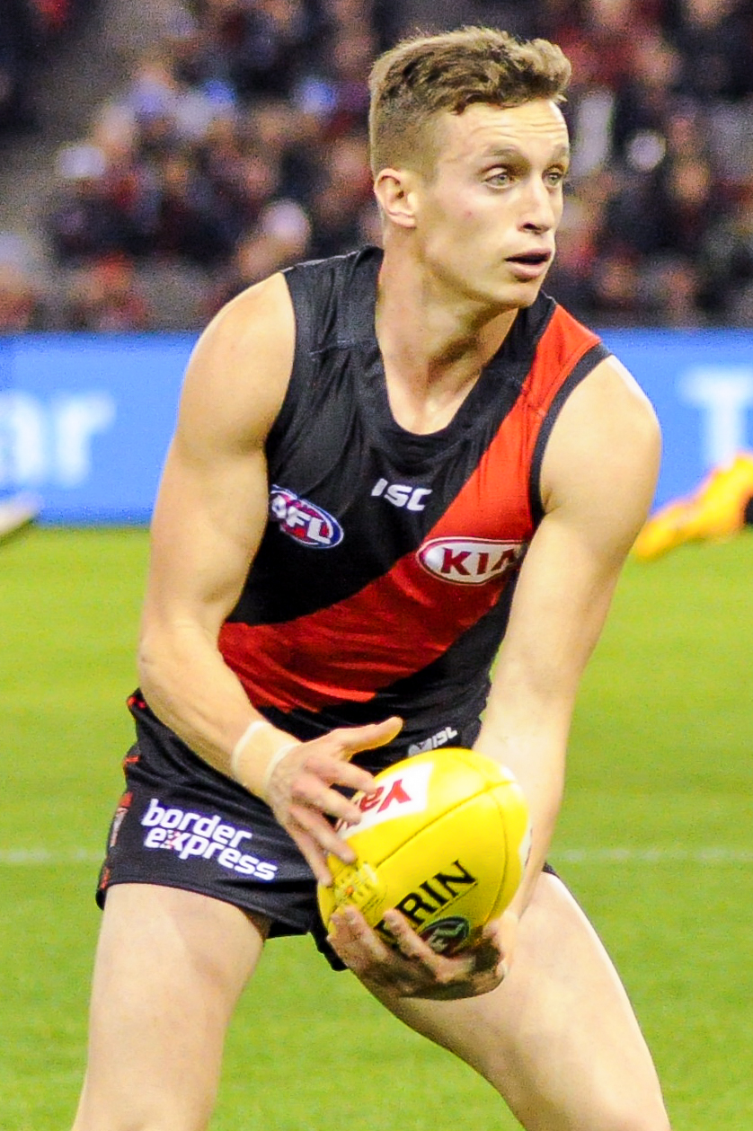 Orazio Fantasia during the AFL round twelve match between Essendon and Port Adelaide on 10 June 2017 at Etihad Stadium in Melbourne, Victoria.